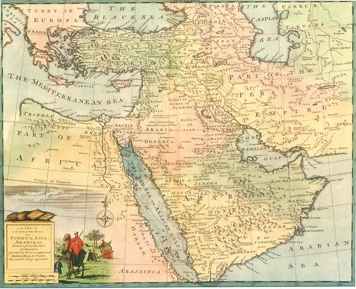 This historical regional map of the Middle East illustrates Asien territories of the ottoman Empire as well as Persian Safavid Empire. Created by a British engraver named Emanuel Bowen between 1744 and 1752. Also showing the Persian Gulf in the map.